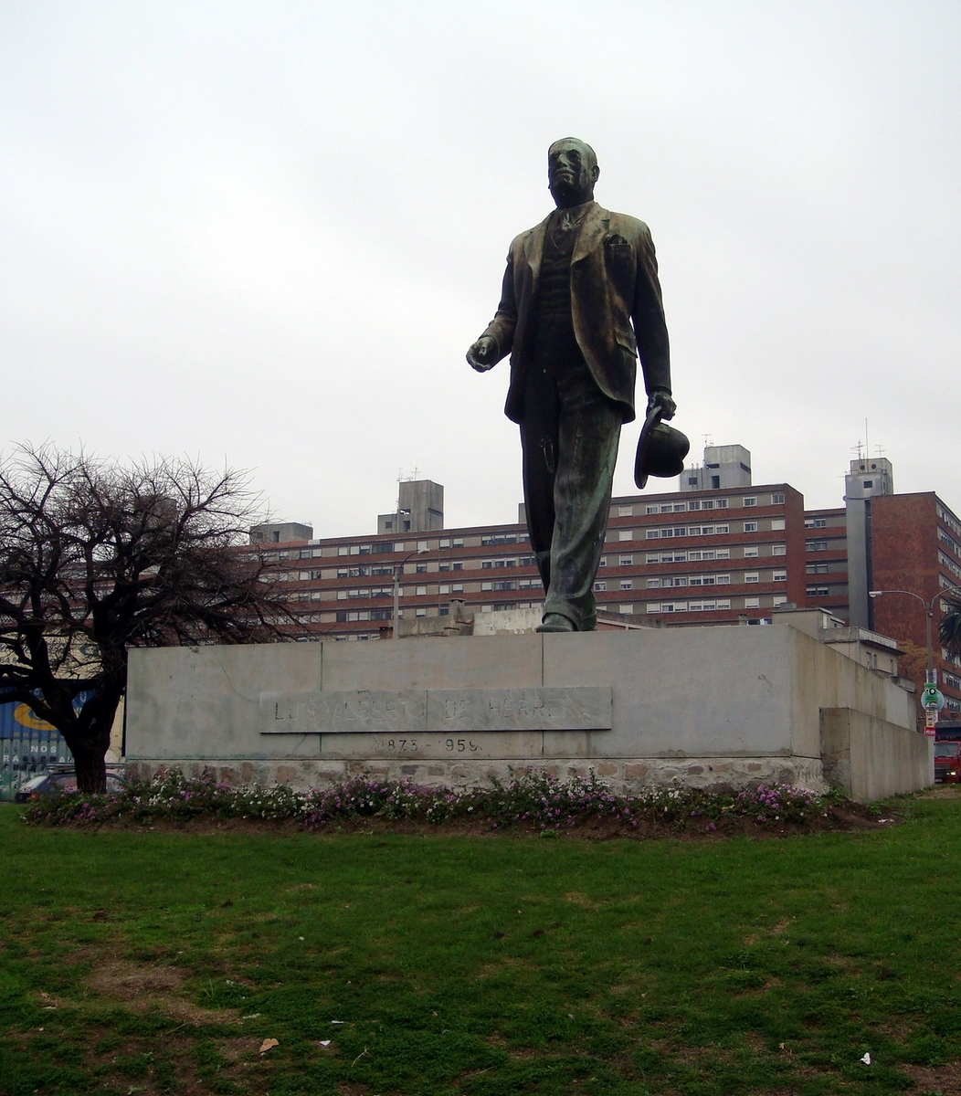 Photo of Luis Alberto de Herrera (National Party Leader) monument at Montevideo.